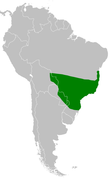 Range map for Southern Tiger Cat (Leopardus guttulus), made by me from base File:BlankMap-World.svg. Map based on the range map at IUCN red list.